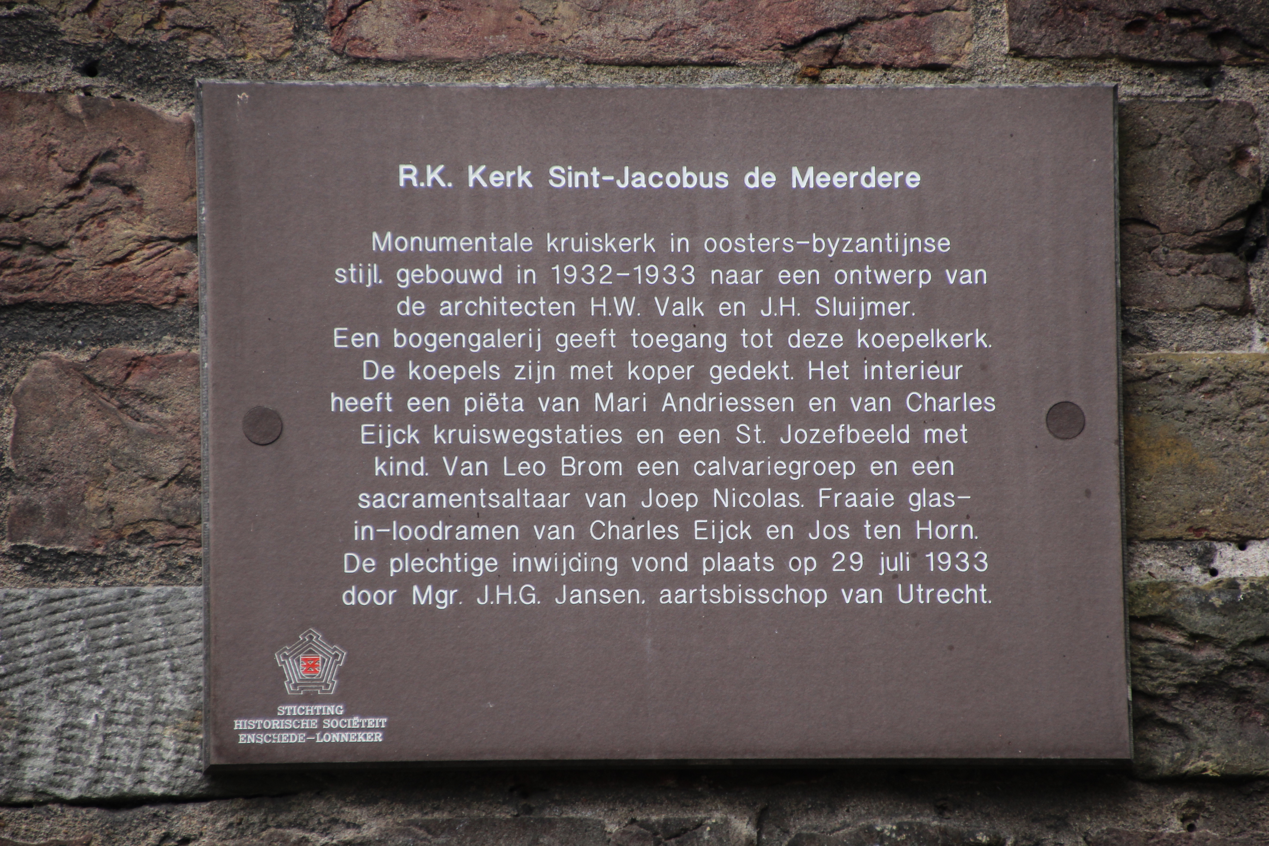 Commemorative plaque attached to the front of the Jacobuskerk in Enschede, the Netherlands, van de foundation historical society Enschede - Lonneker.